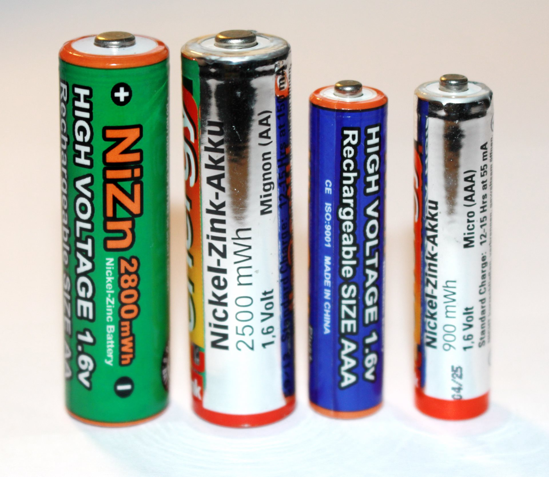 NiZn Akku in AAA and AA